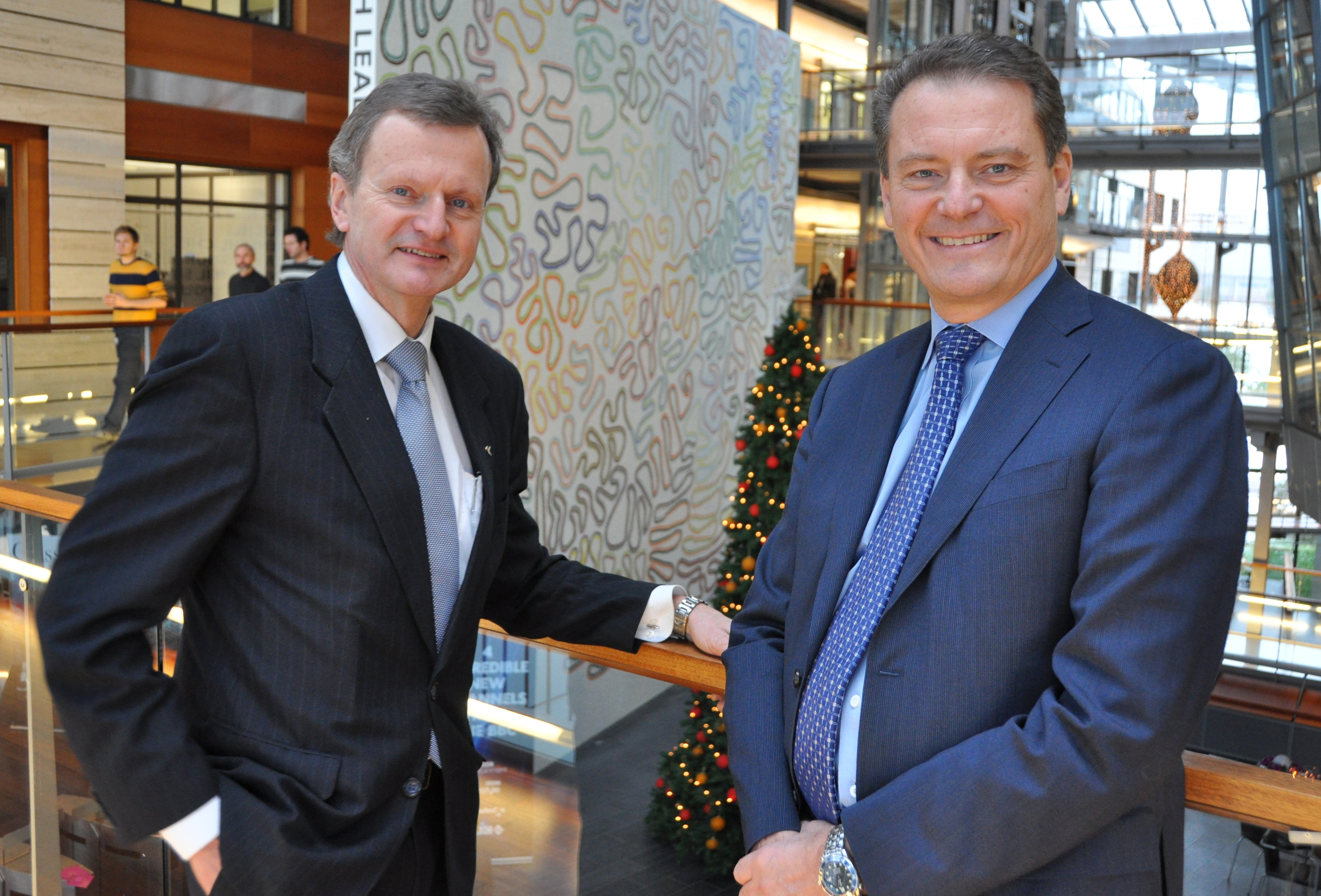 Jon Fredrik baksaas (CEO of Telenor) and Carl-Henrik Svanberg (CEO of Ericsson) in December, 2008.